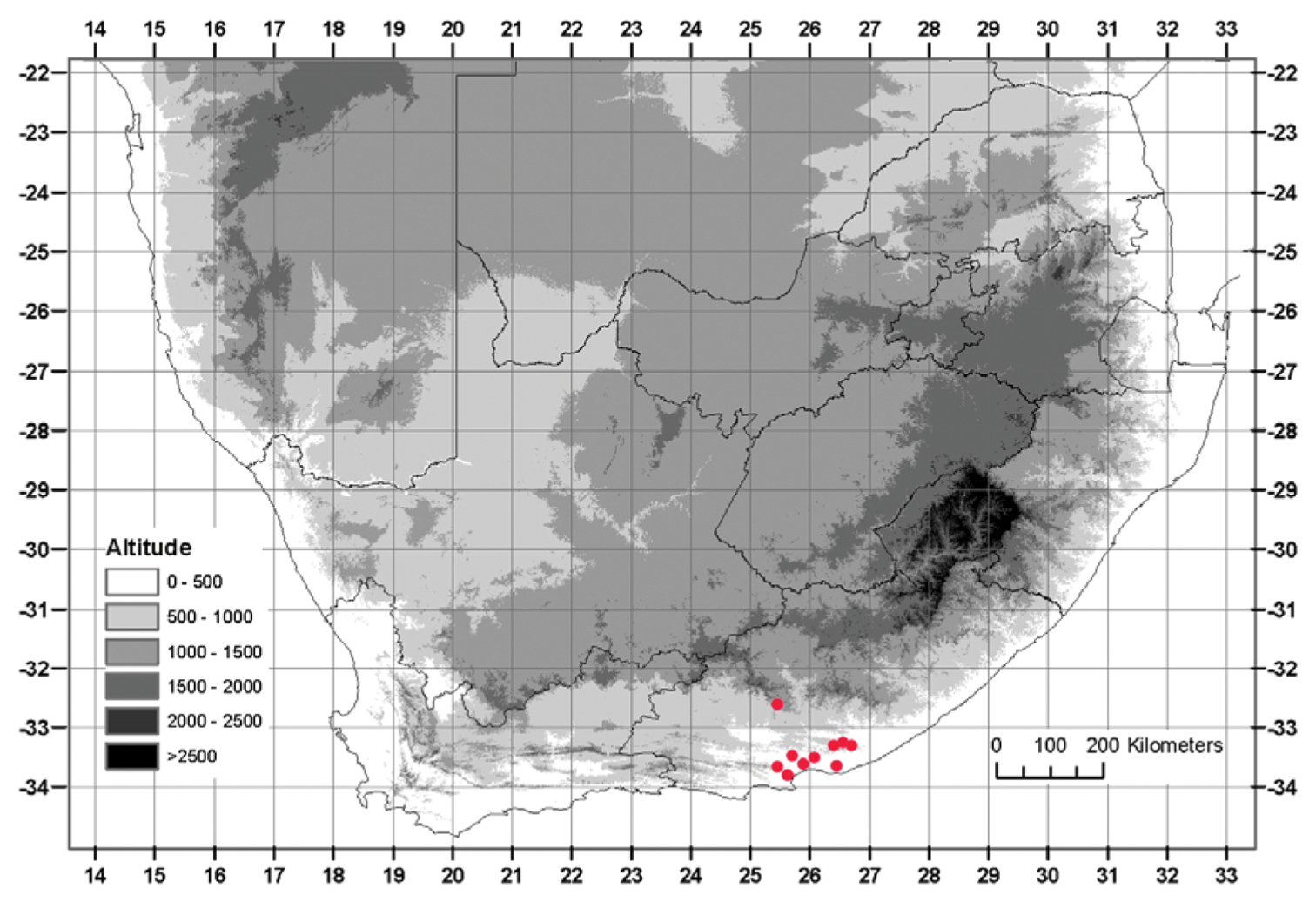 Known distribution of Albuca caudata Jacq.